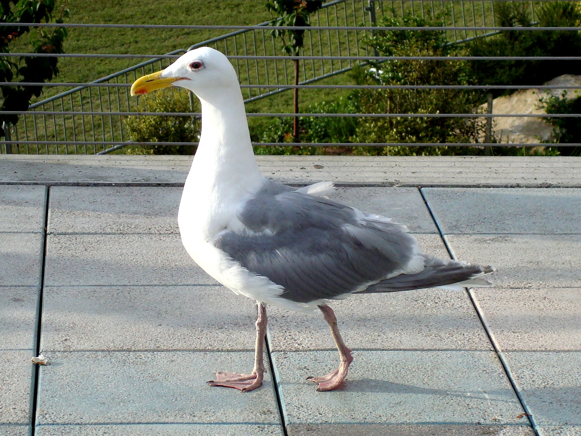 Glaucous-winged Gull Larus glaucescens pictured at the Seattle Center. Seattle, Washington, USA.